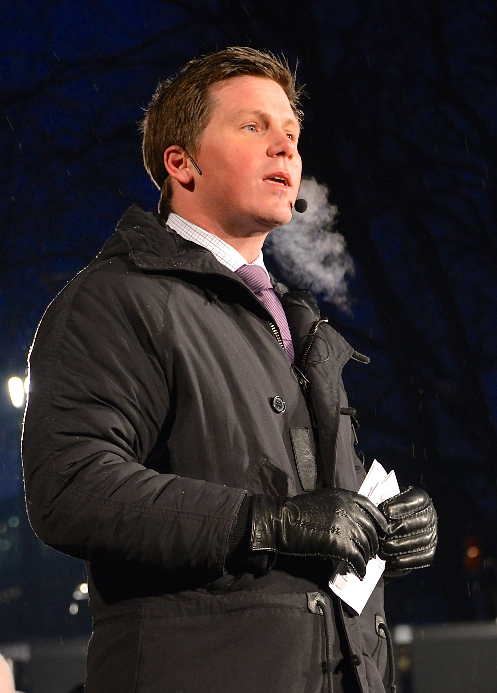 Memorial Ceremony at the Raoul Wallenberg square with Holocaust survivors. Mr Eskil Franck, Director of the Living History Forum, and Erik Ullenhag, Minister for Integration. 27 January 2013, International Holocaust Remembrance Day.